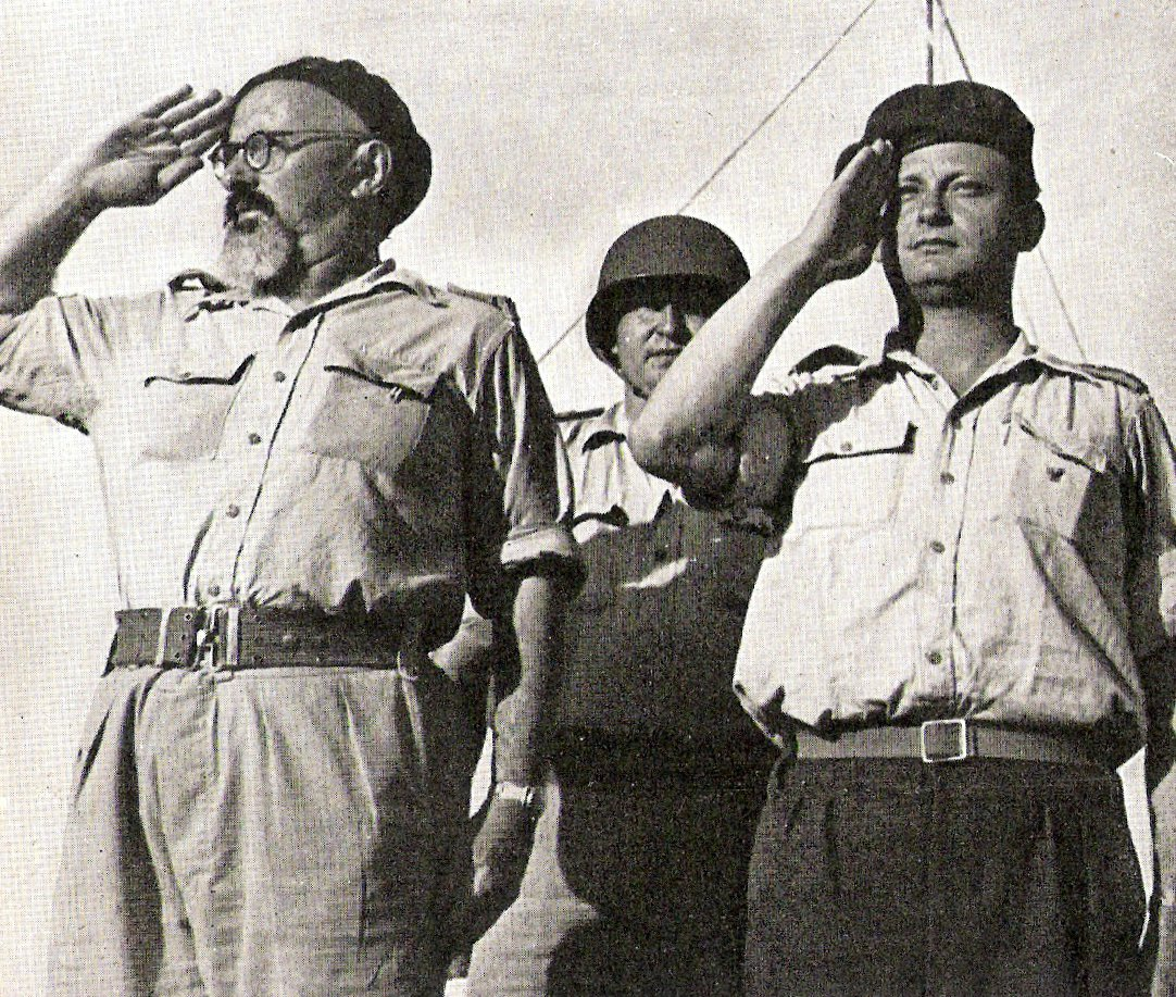 Itzhak Sadeh and Yigal Allon in 1948